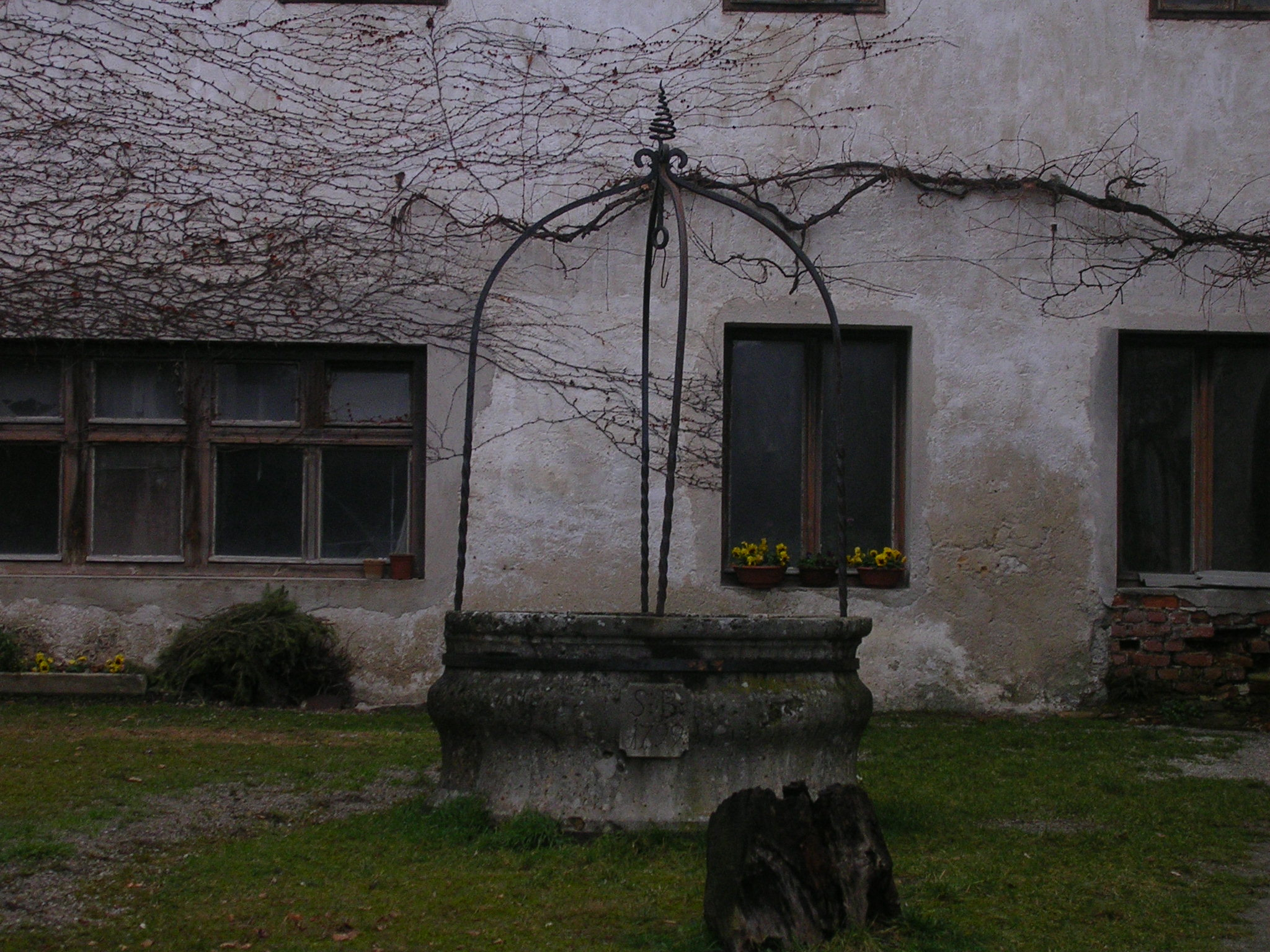 Podsmreka castle